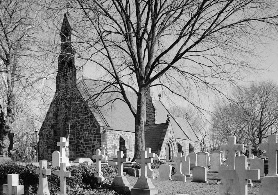 Church of St. James the Less, 3200 West Clearfield Street, Philadelphia, PA, a National Historic Landmark.